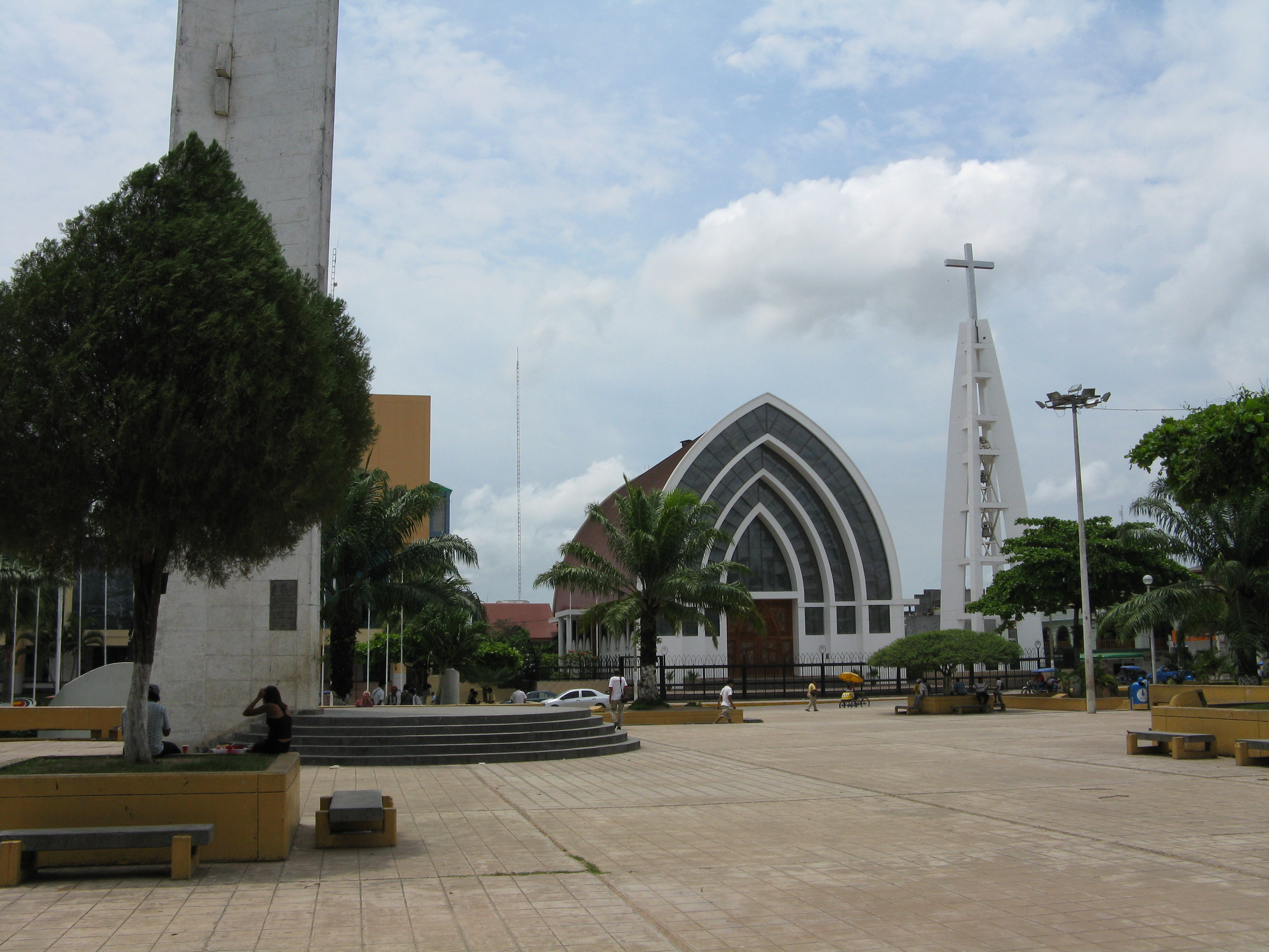 Plaza de Armas, Pucallpa